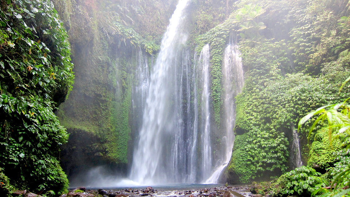 A Waterfall in Senaru. Air Terjun Tiu Kelep waterfall, Lombok.